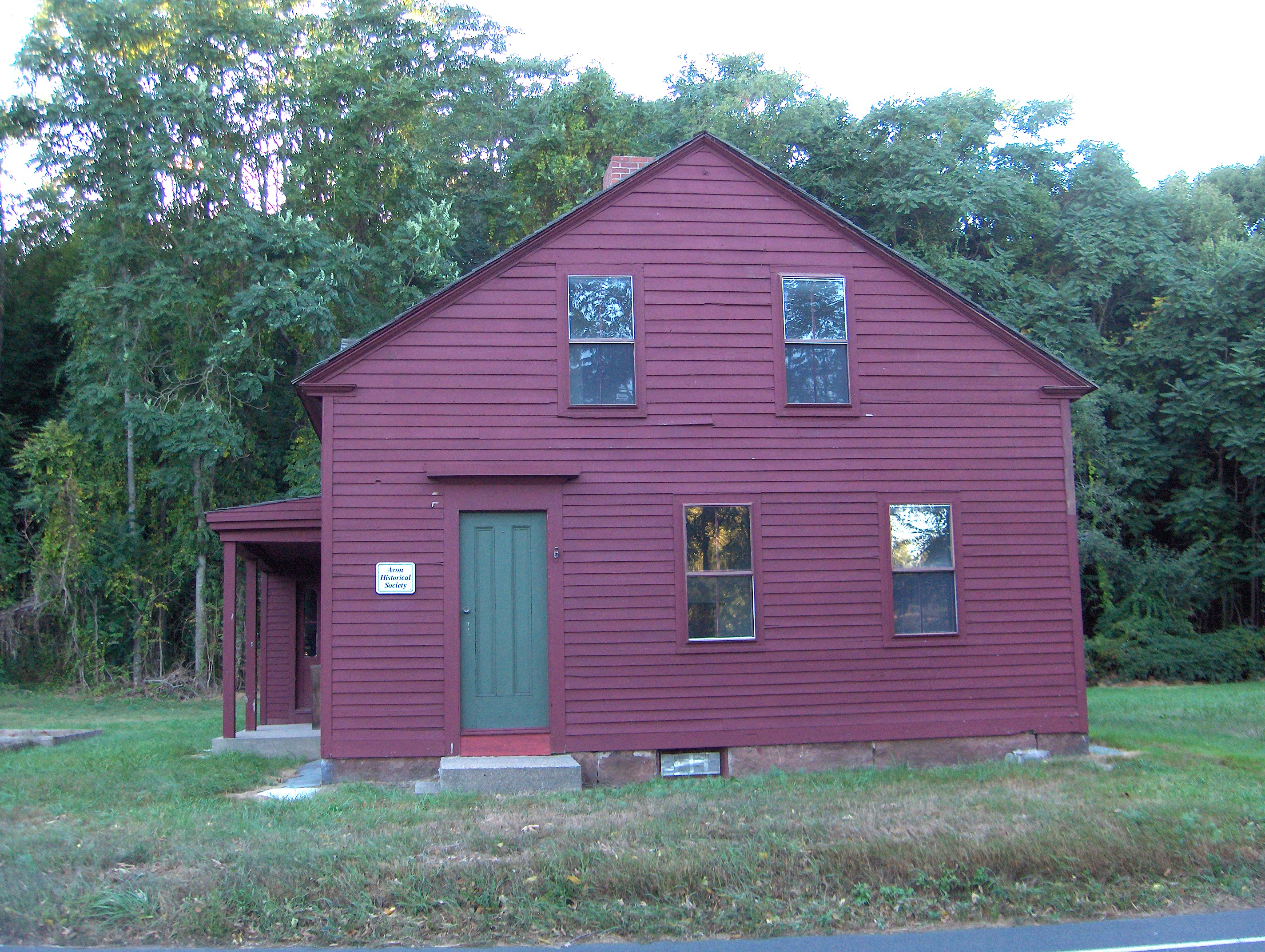 Derrin House, an 1810 Historical Home in Avon Ct